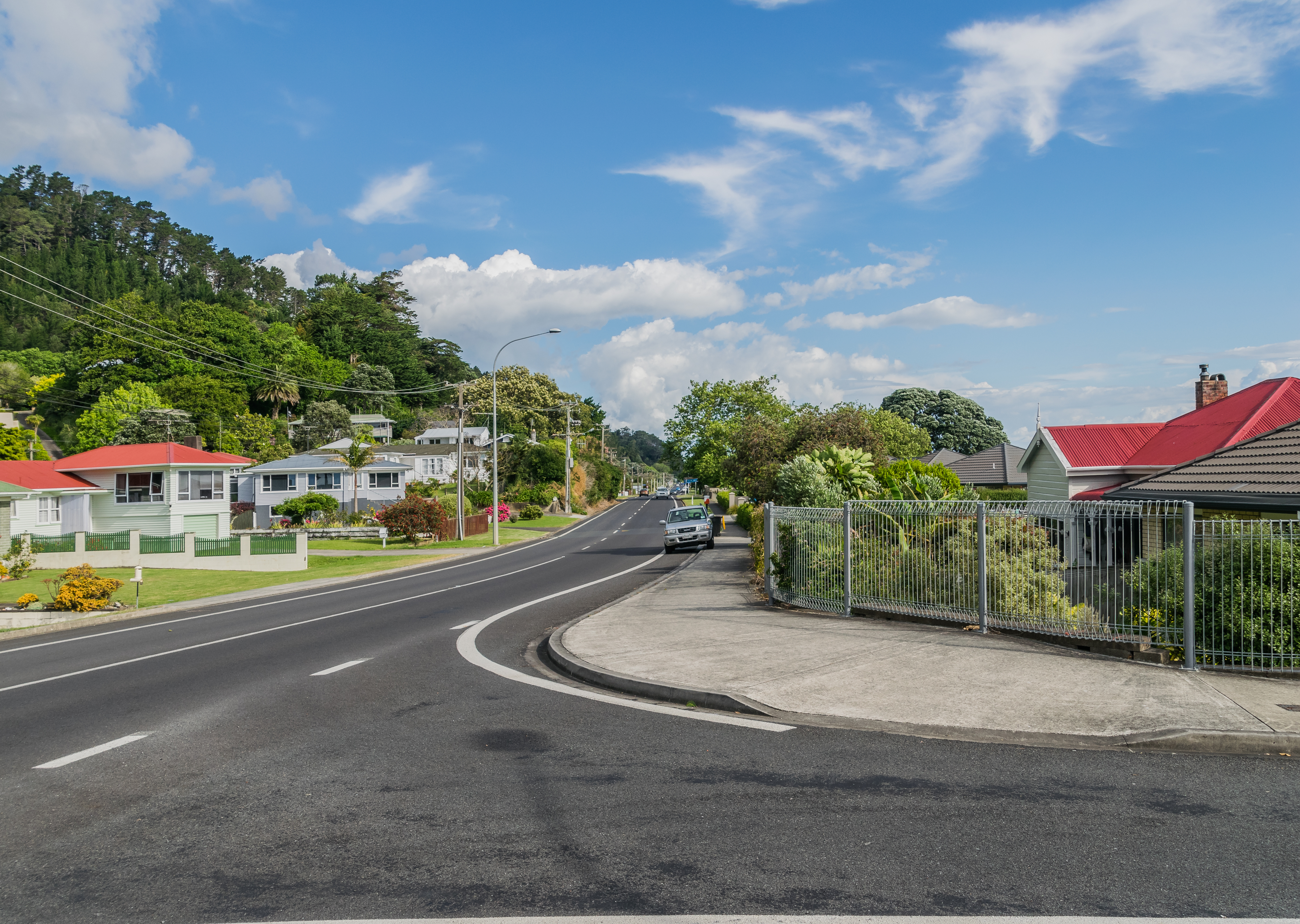 Tararu Road in Thames in Waikato Region, North Island of New Zealand